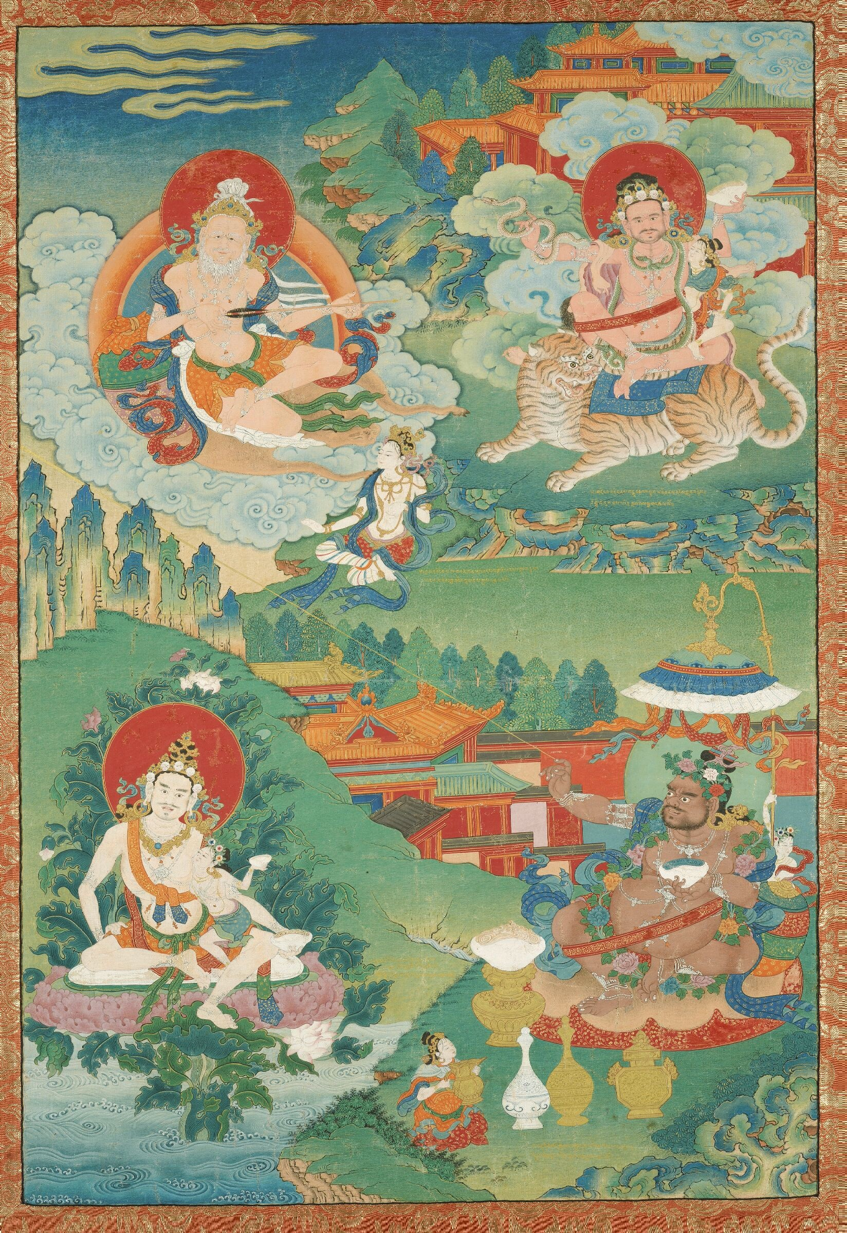 Indian Adept (siddha) - (multiple figures),18th century, Boston MFA